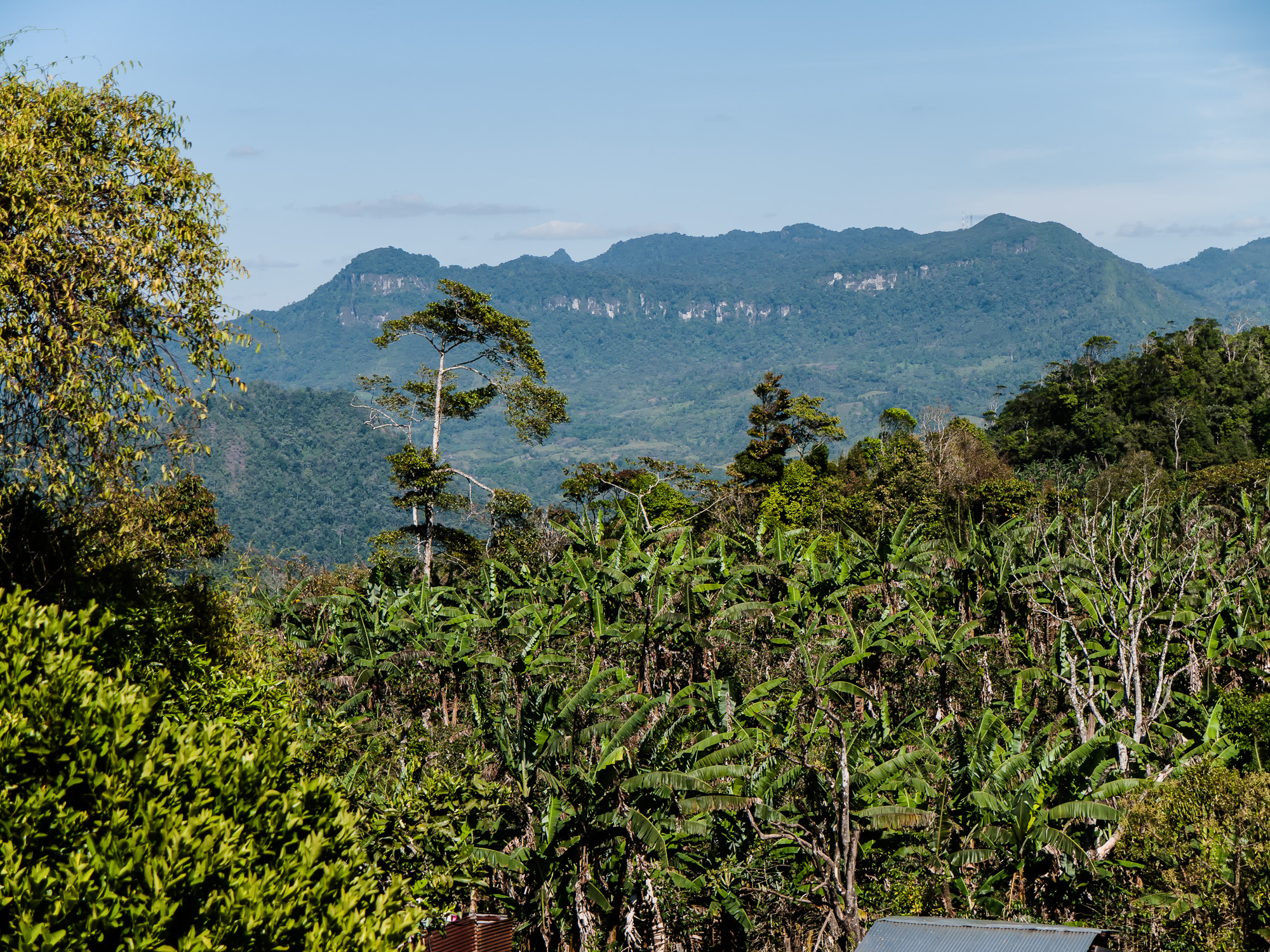 Peñas Blancas en Departmento de Jinotega